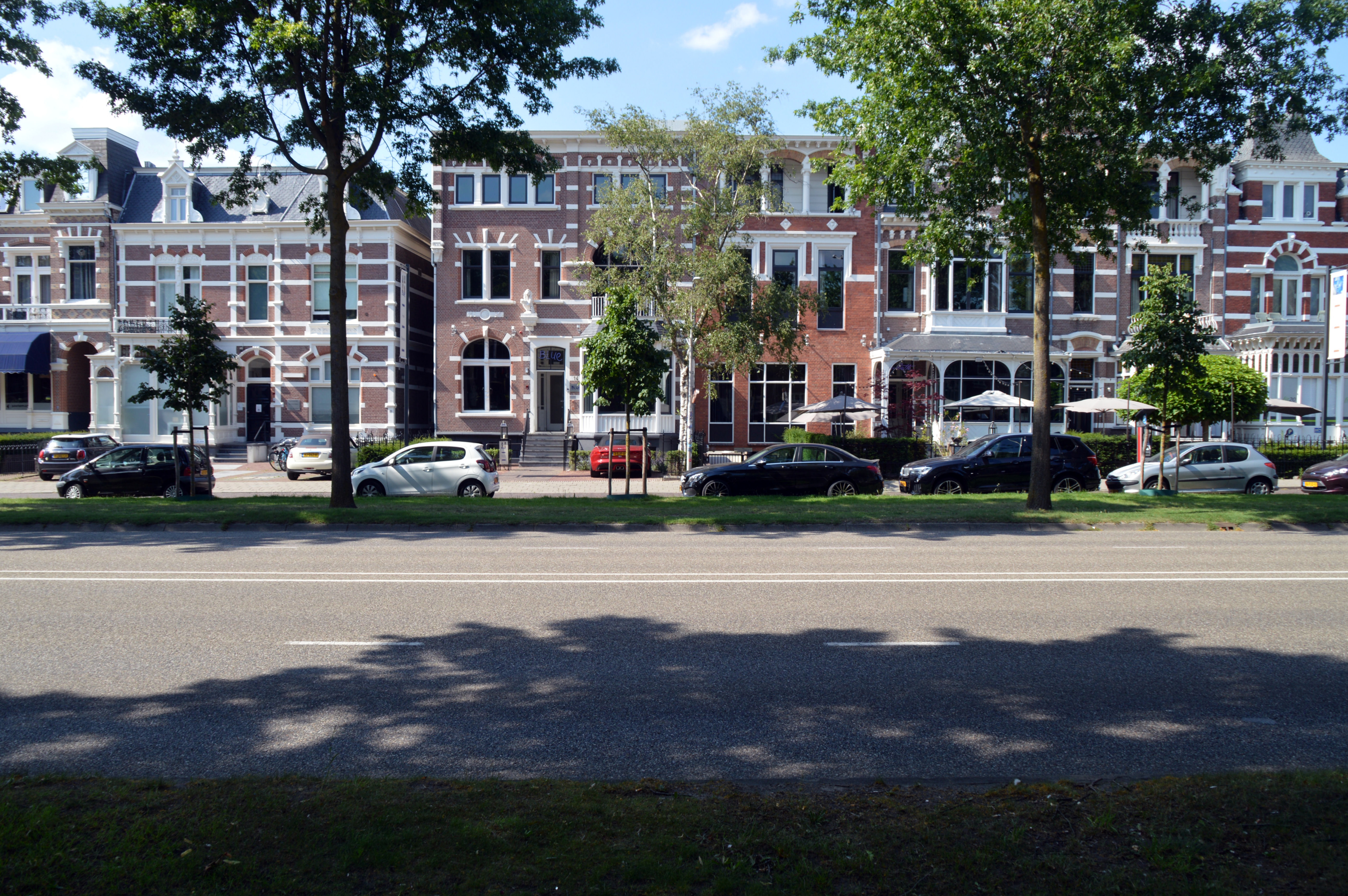 Oranjesingel 14-20 Nijmegen Designed by Gerardus Buskens. Built in 1896. Monument.